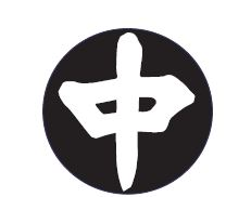 Roundel of China National Aviation Corporation (1997-): A white Chinese character "中" in blue circle (monochrome file uploaded).